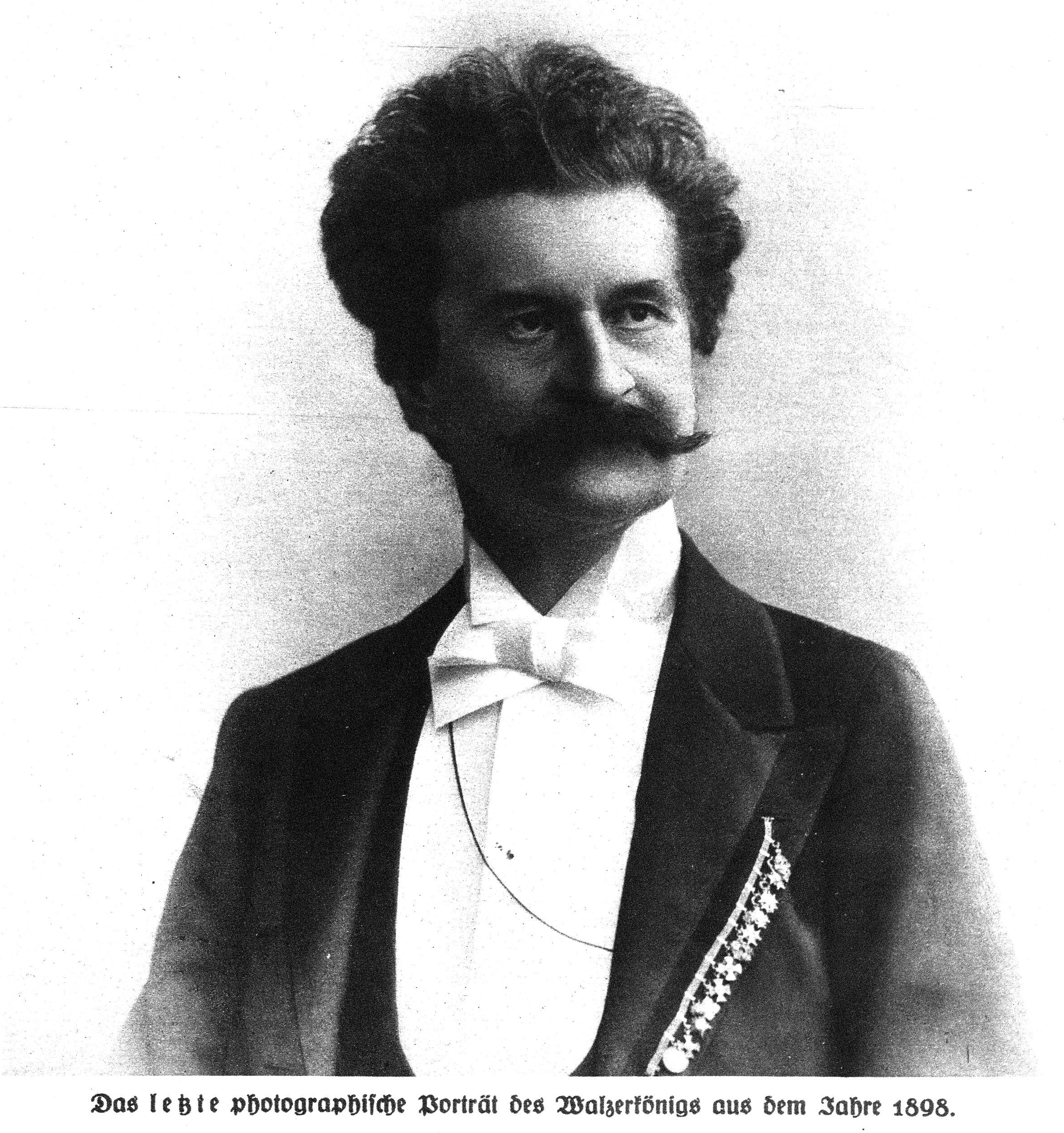 The last photographic portrait of the Waltz King from 1898.